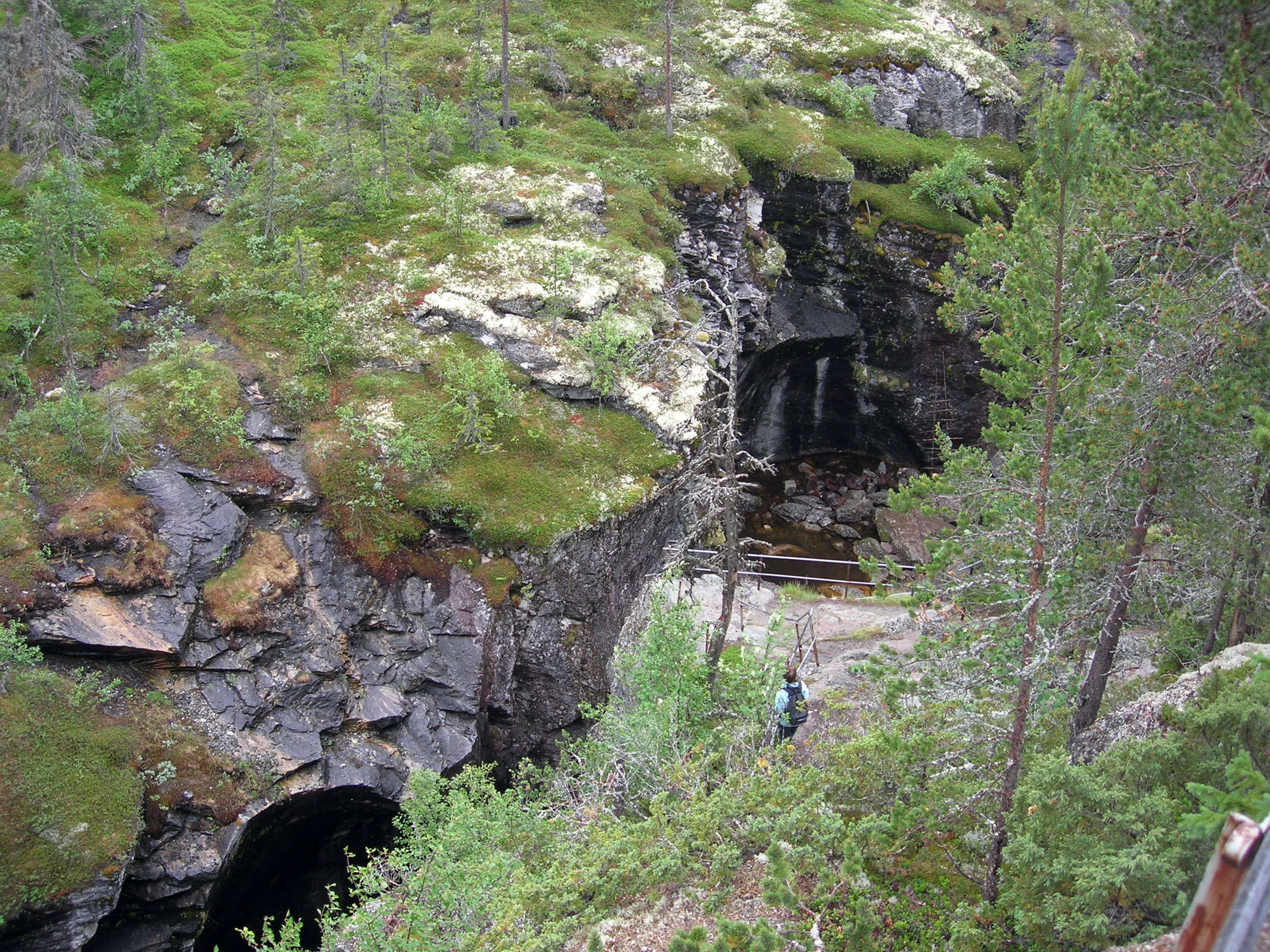 Giants kettle in Helvete in Gausdal, Oppland, Norway.